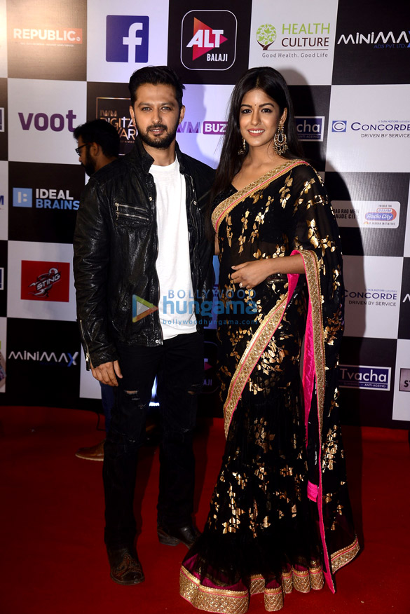 Ishita Dutta graces Alt Balaji’s Digital Awards 2018, Mar 18, 2018.